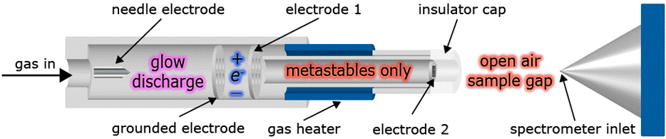 Schematic diagram of direct analysis in real time (DART) ambient ion source (extra white space removed).